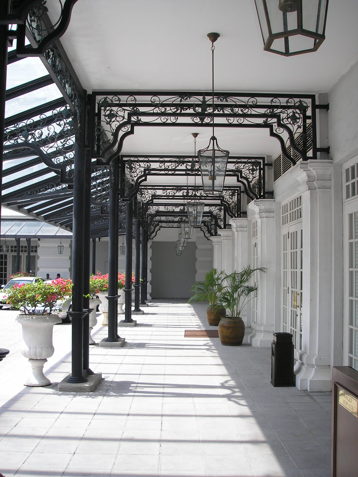 Image of the Eastern & Oriental Hotel in George Town, Penang.